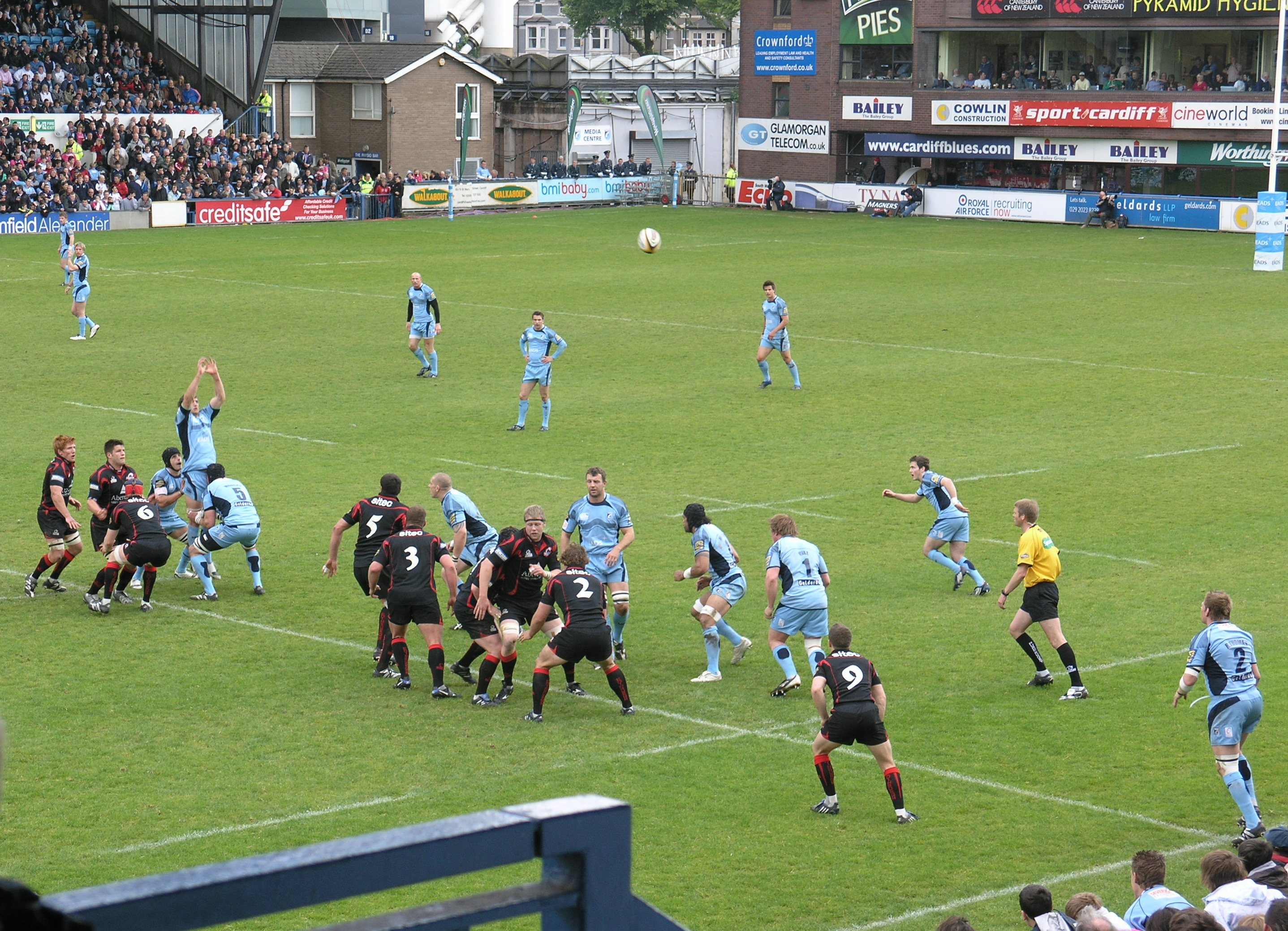 Cardiff Blues Vs Edinburgh (last game as Cardiff Arms Park), Cardiff, Wales.